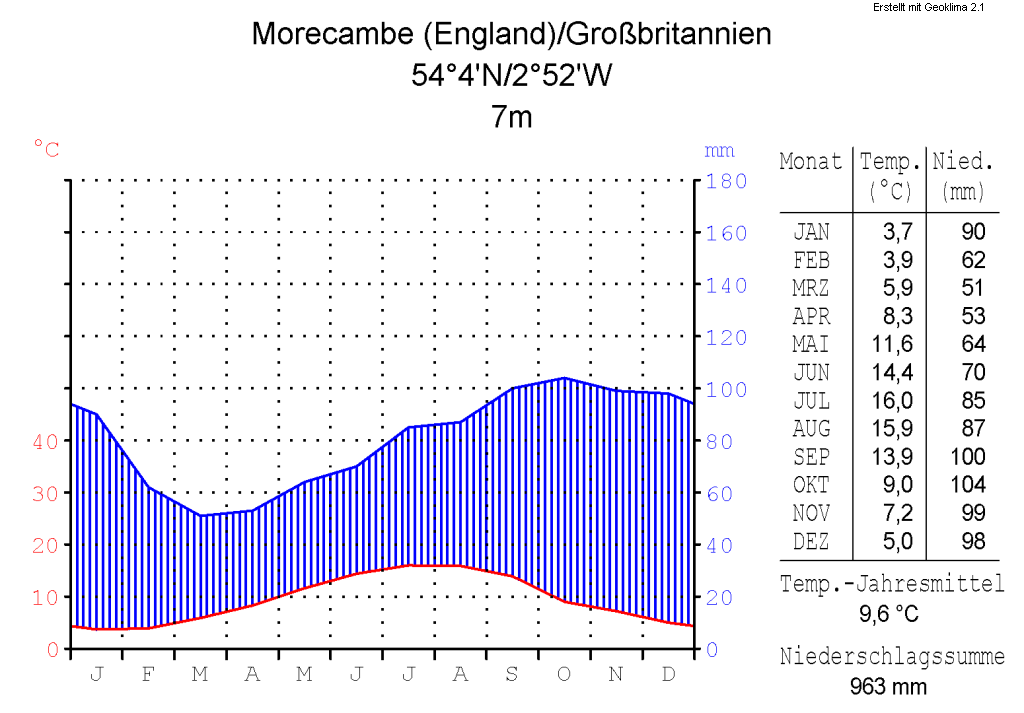 climate chart in the format by Walter and Lieth, metric, °Celsisus and millimeters, made with Geoklima 2.1